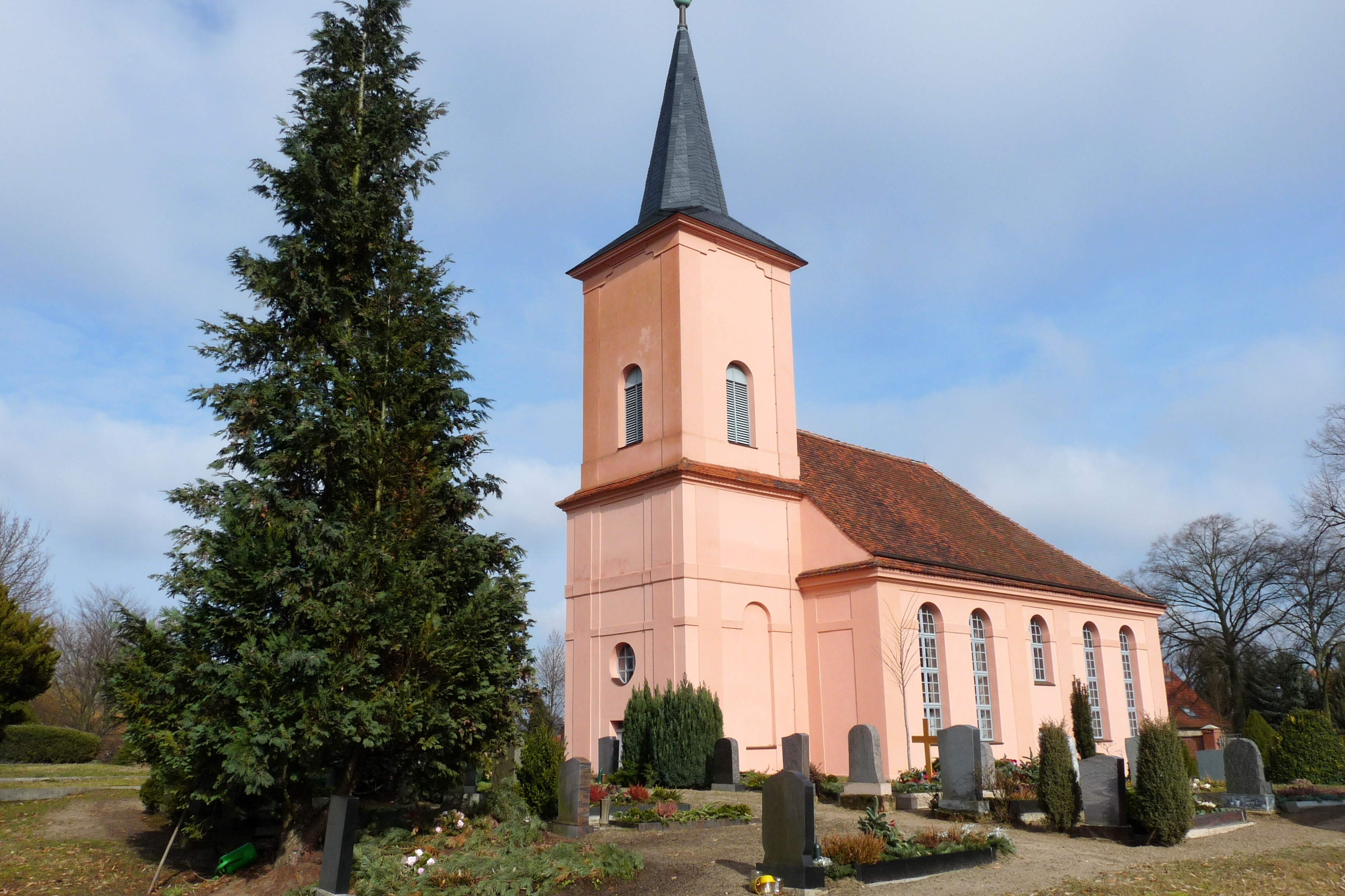 Church in the village Phöben (Werder/Havel)